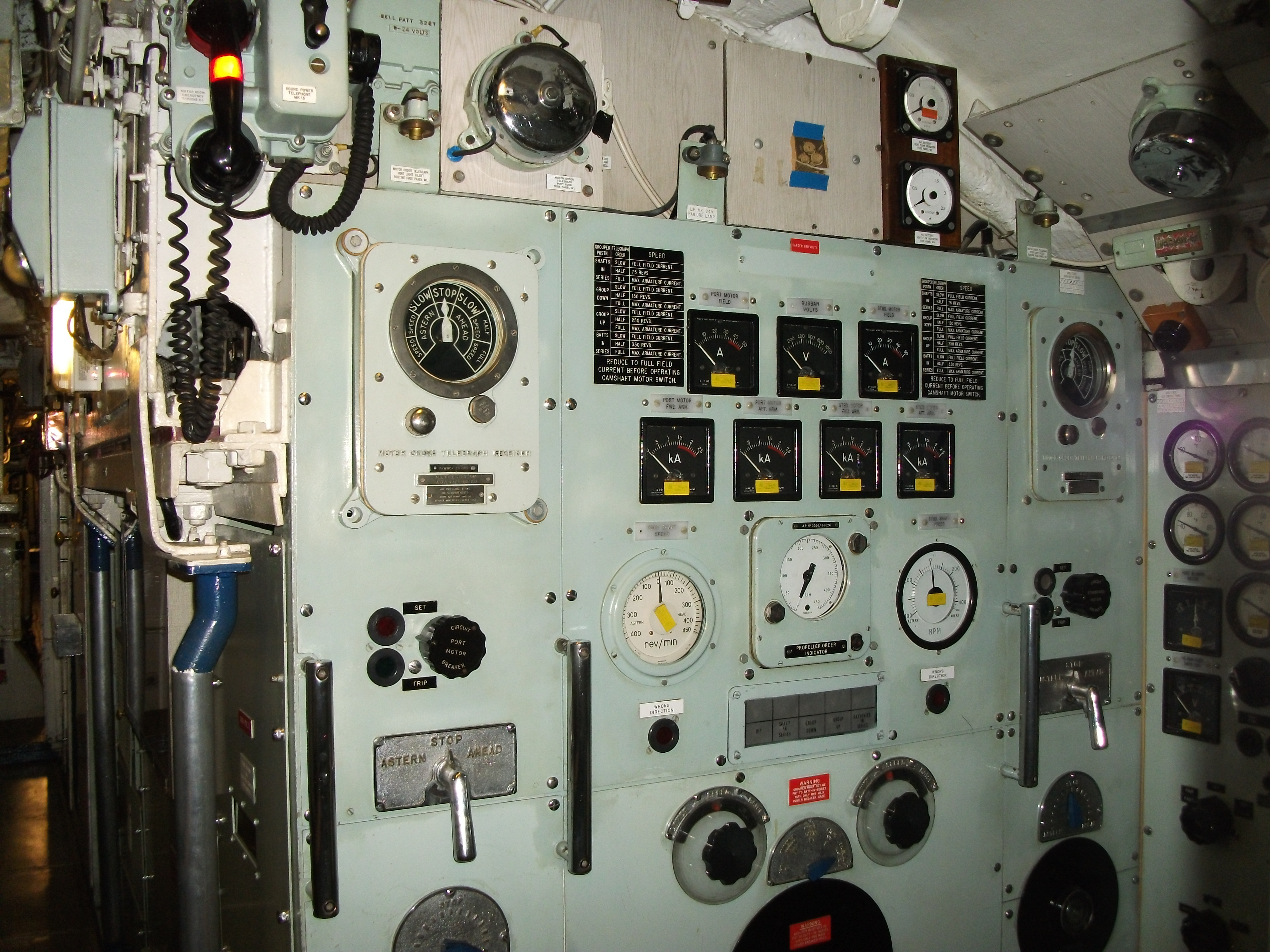 Control panel for main electric propulsion motors onboard Oberon class submarine HMS Ocelot (launched 5 May 1962). The submarine is now preserved at the Chatham Historic Dockyard museum, Chatham, Kent, UK. Each propellor has a separate electric motor driven by power from the battery bank. Batteries were charged by dynamos driven by diesel engines.